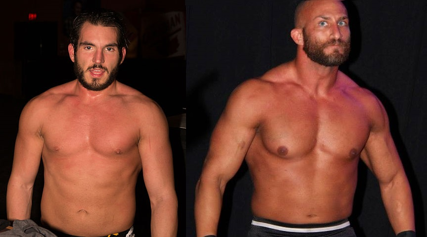 Professional wrestlers Johnny Gargano and Tommaso Ciampa.